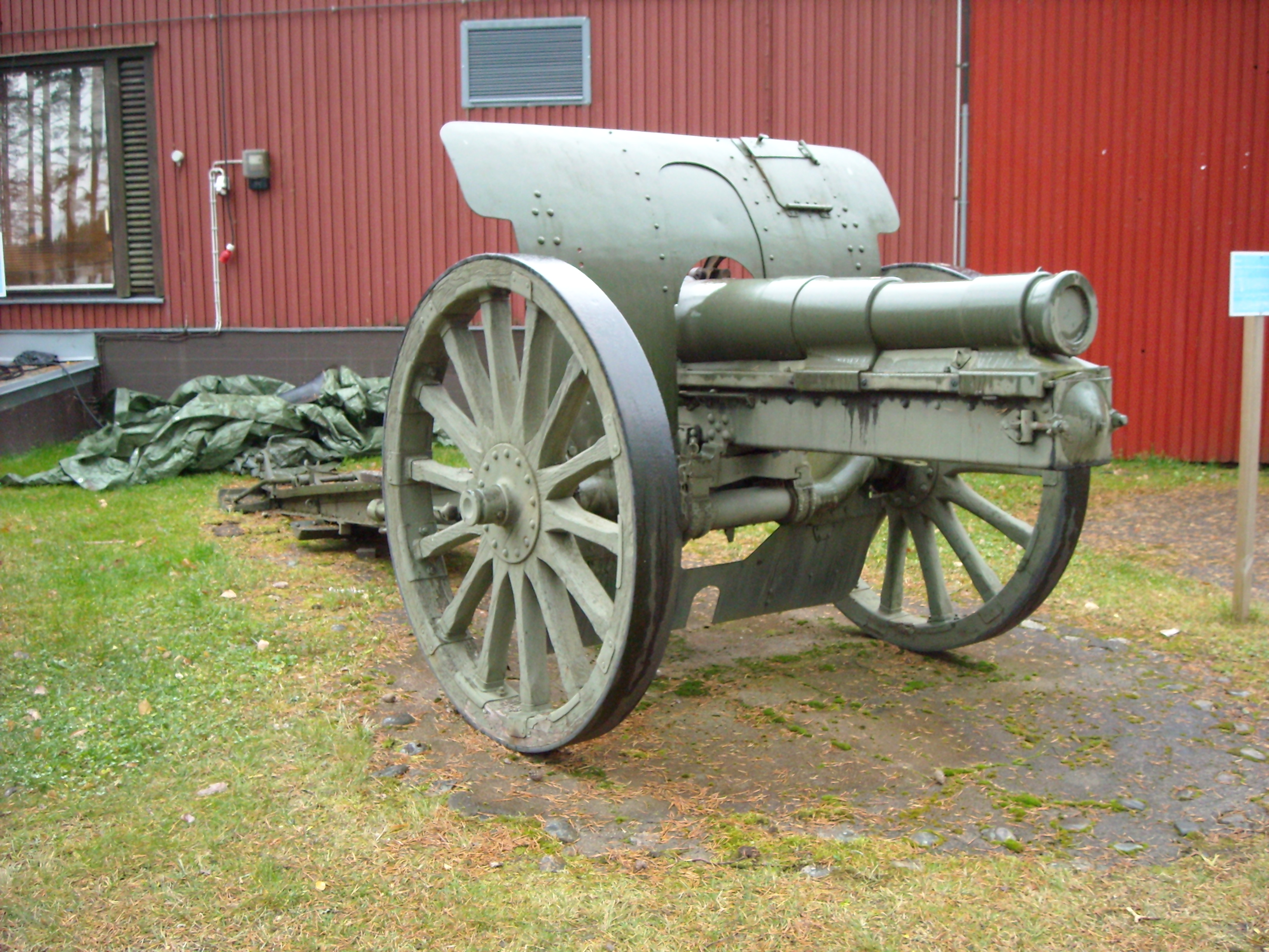 Russian made 122 mm howitzer m/1909. Used in (for instance) Defence Forces of Finland at WW II.